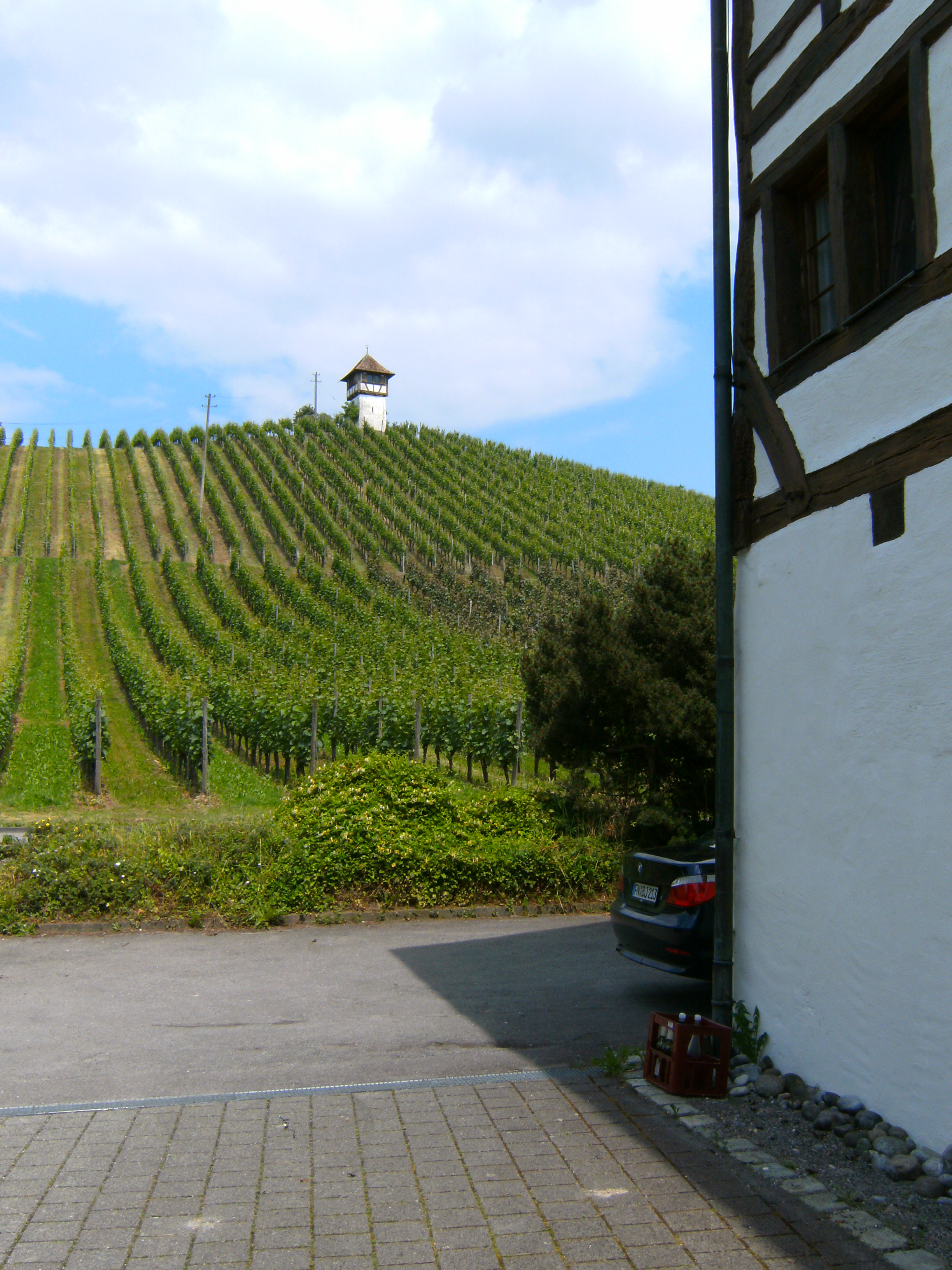 View from Haltnau between Meersburg and Hagnau, Germany, over vineyards to a little vineyard house.